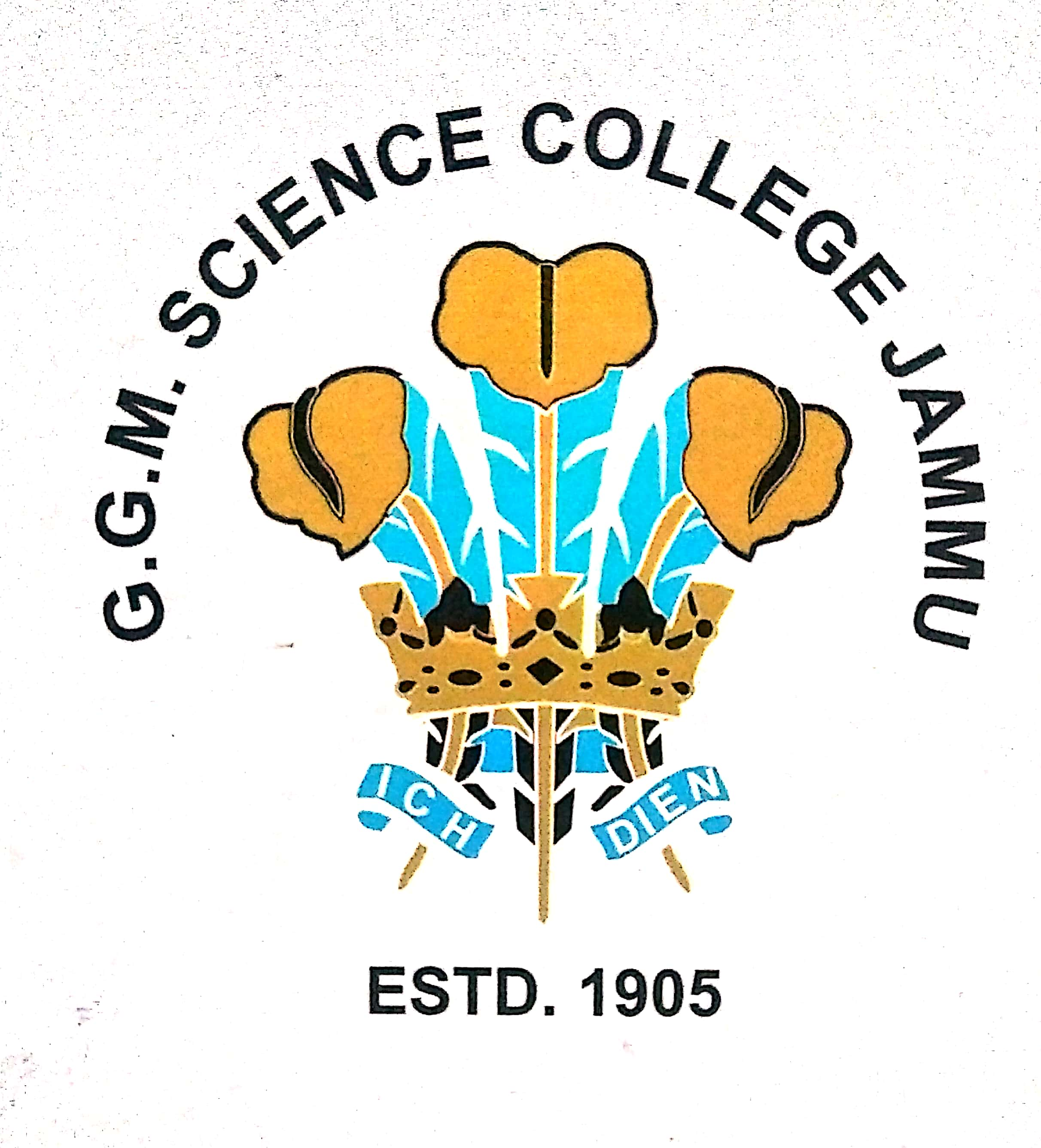 This file is the logo of GGM Science College Jammu and is intended to be used only on Wikipedia article titled Govt. Gandhi Memorial Science College. This image cannot be used in any other article except GGM Science College itself or articles related to the same. This logo is originally the work of GGM Science College made available to the public domain and the digital image is captured by The Ultimate / (English Wikipedia) from the admission brochure for session 2018-2019 of GGM Science College Jammu. There can be no non copyrighted replacement for this logo since if created by the user himself, it'll also be copyright infringement. No non-free image can exist for this image as if created, it itself will be copyrighted because it must be same as the original logo of the concerned college/university. If replaced with any other image, it shall not depict the authenticity of the title. Further, if replaceable by any logic, then this uploaded image can also be called free as I am the original creator of this image and make it available to be used in public domain. Like the images used as the logo for any other college/university, this logo can be used as the same license.